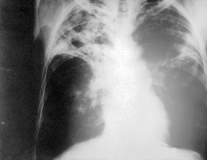 An anteroposterior X-ray of a patient diagnosed with advanced bilateral pulmonary tuberculosis. This AP X-ray of the chest reveals the presence of bilateral pulmonary infiltrate, and „caving formation“ present in the right apical region. The diagnosis is far-advanced tuberculosis.